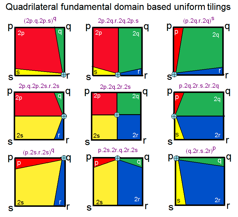 Wythoff construction - generator points for uniform tilings within *pqrs symmetry